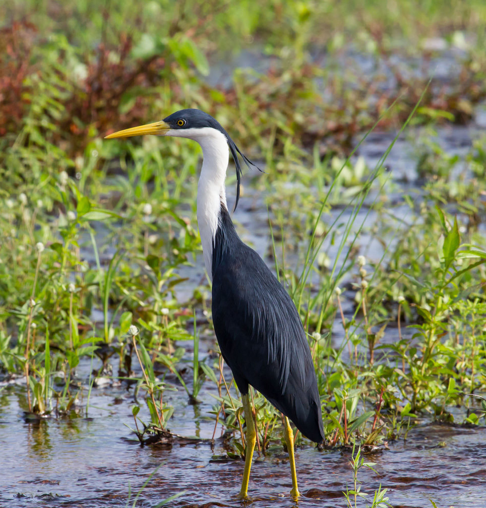 Pied Heron in breeding plumage - Fogg Dam - Middle Point - Northern Territory - Australia